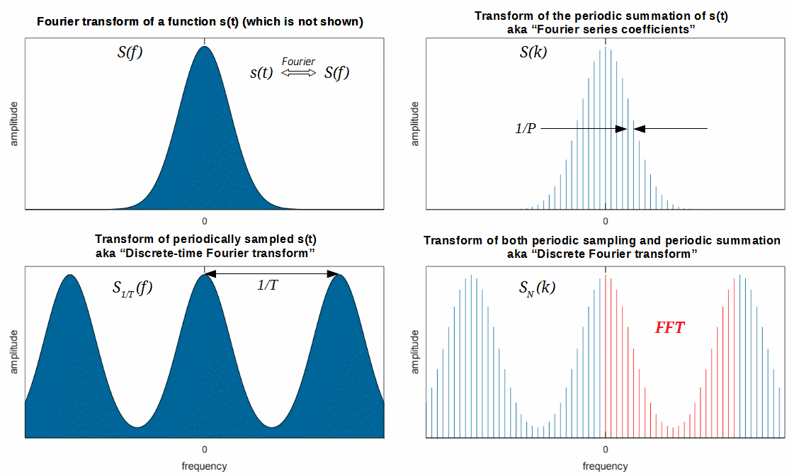 A Fourier transform and 3 variations caused by periodic sampling (at interval T) and/or periodic summation (at interval P) of the underlying time-domain function.